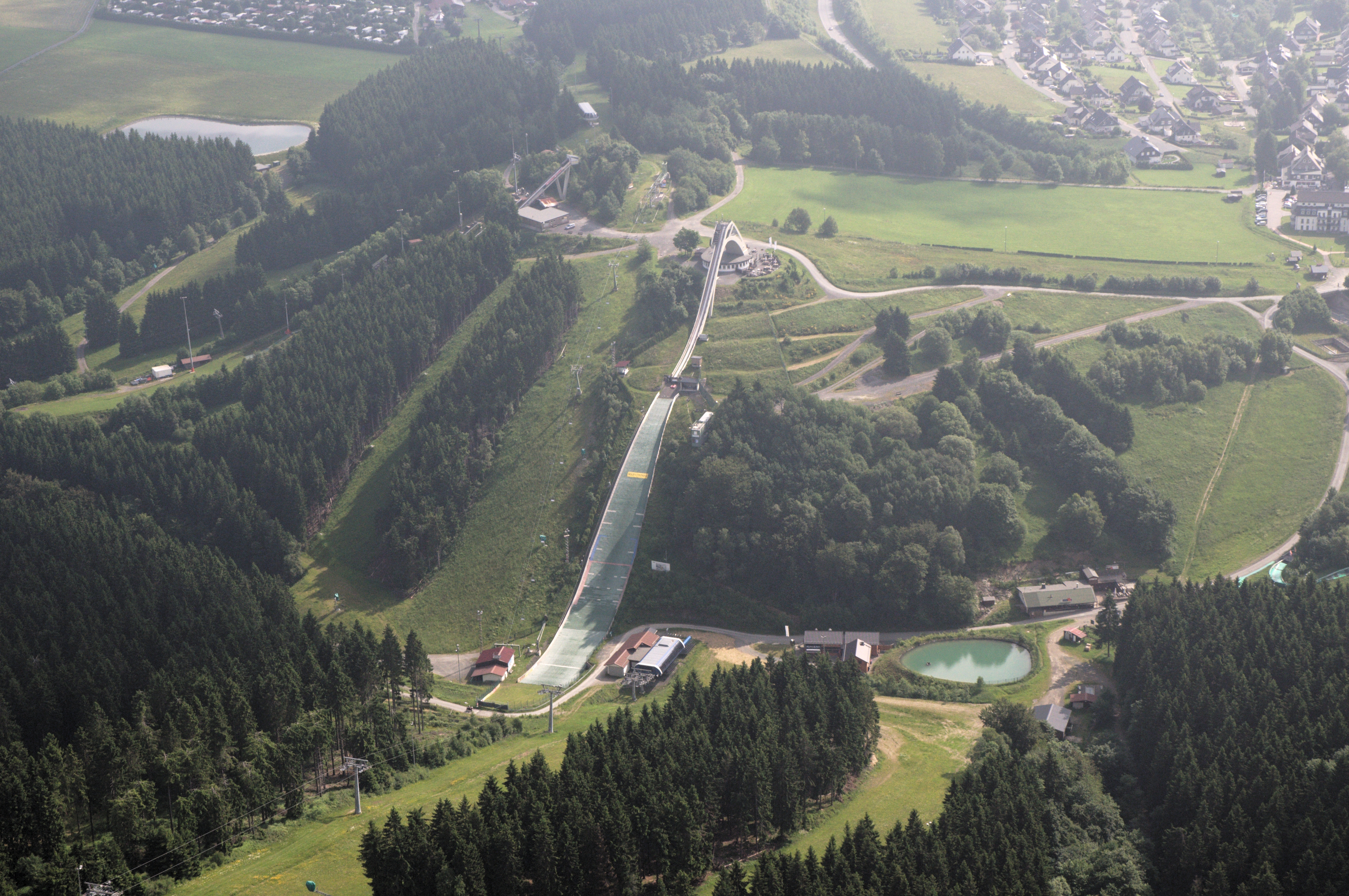 Fotoflug Sauerland-Ost: St.-Georg-Schanze in Winterberg mit Umgebung. The making of this document was supported by the Community-Budget of Wikimedia Germany.